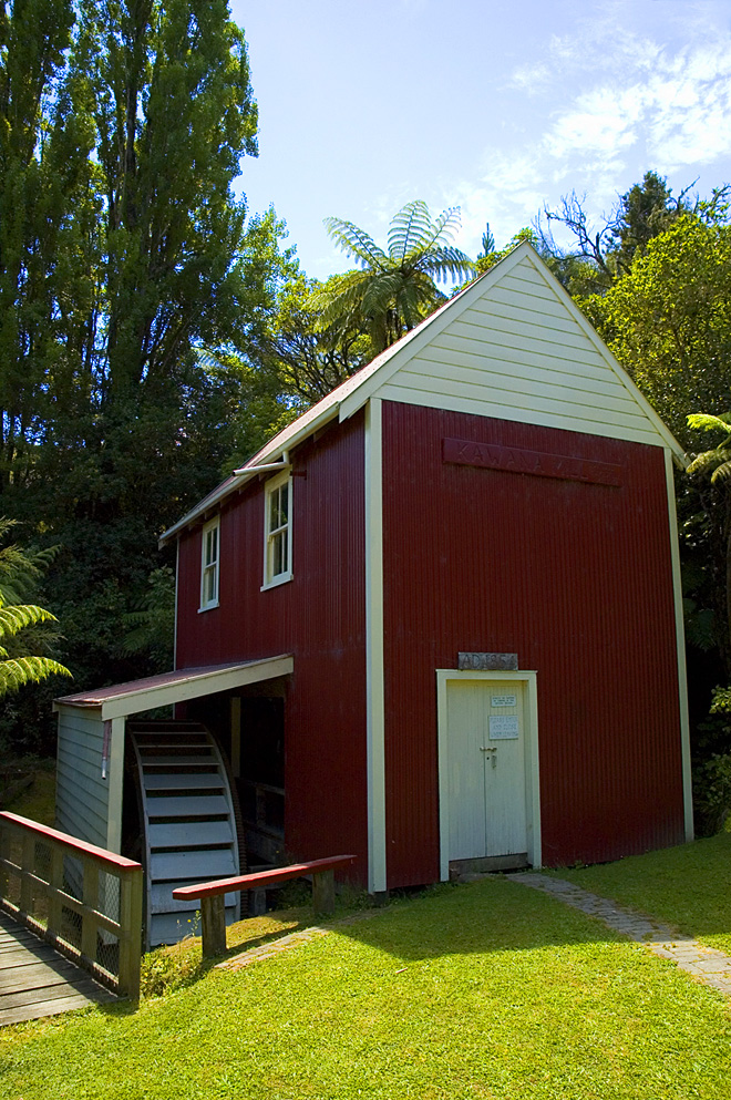 Kawana flour mill, 1854 (restored), Matahiwi, North Island, New Zealand. New Zealand Historic Places Trust Category I; register number 158.